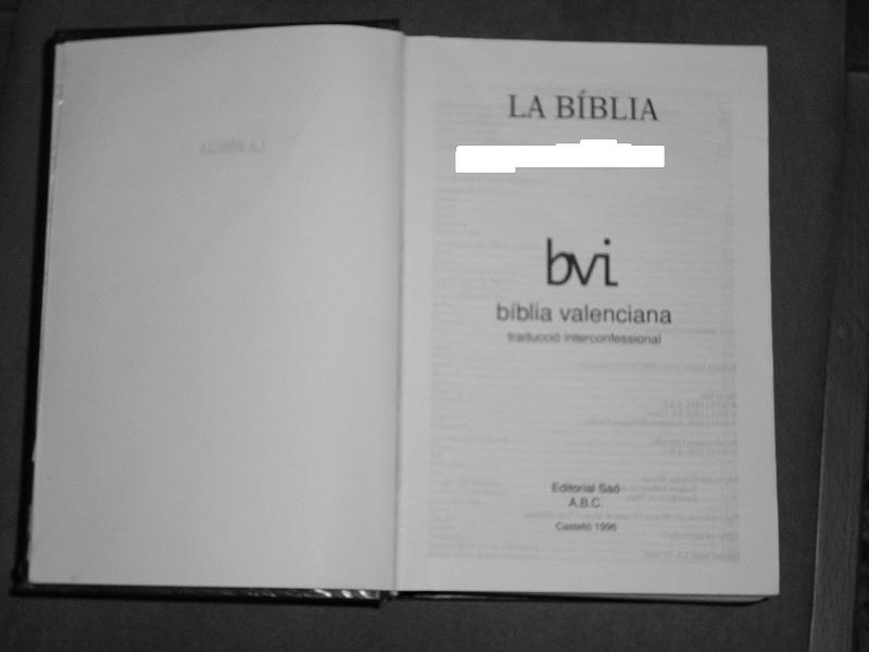 Interconfessional Valencian Bible.